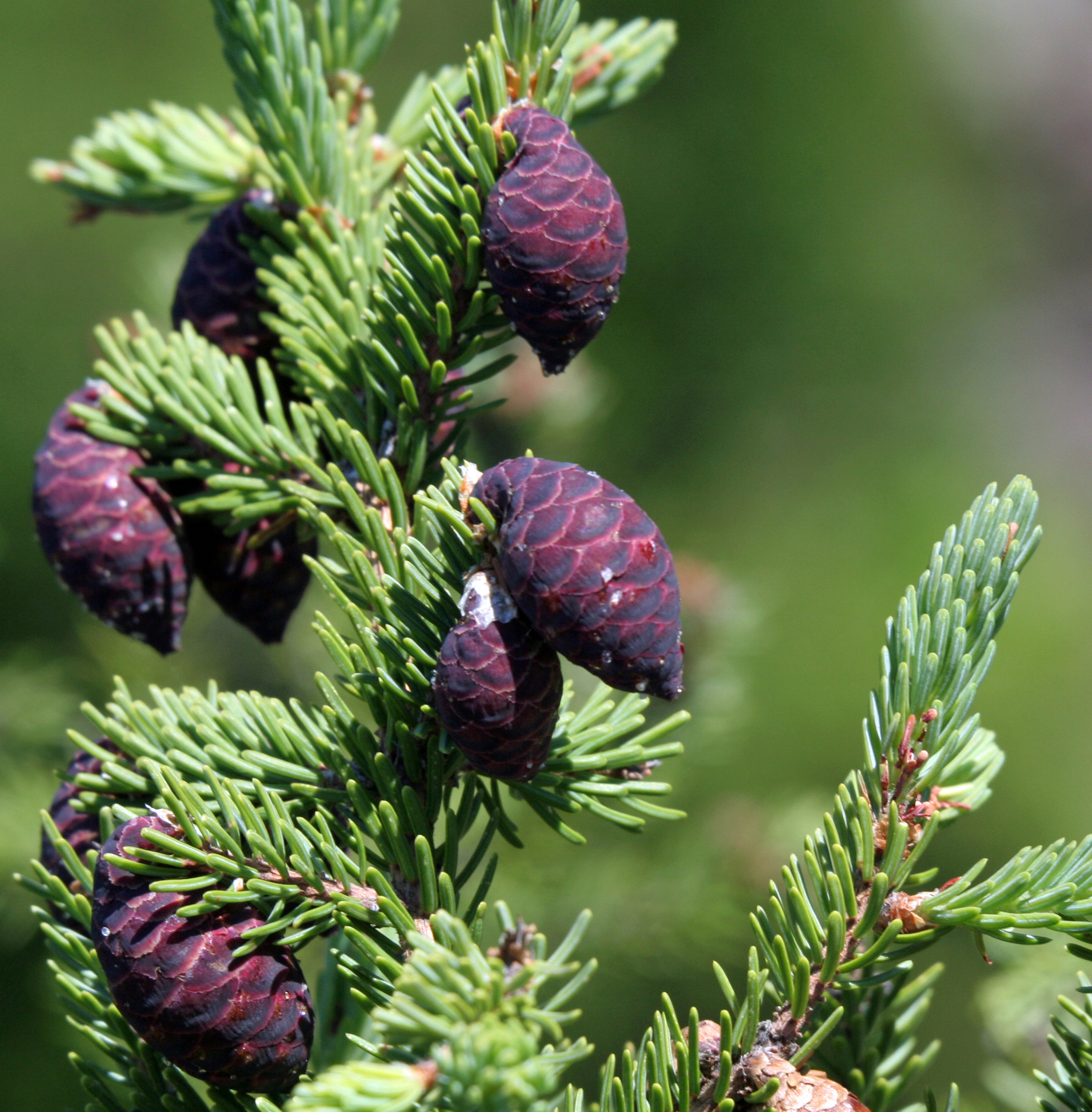 Picea mariana foliage and cones, Ouimet Canyon, Ontario